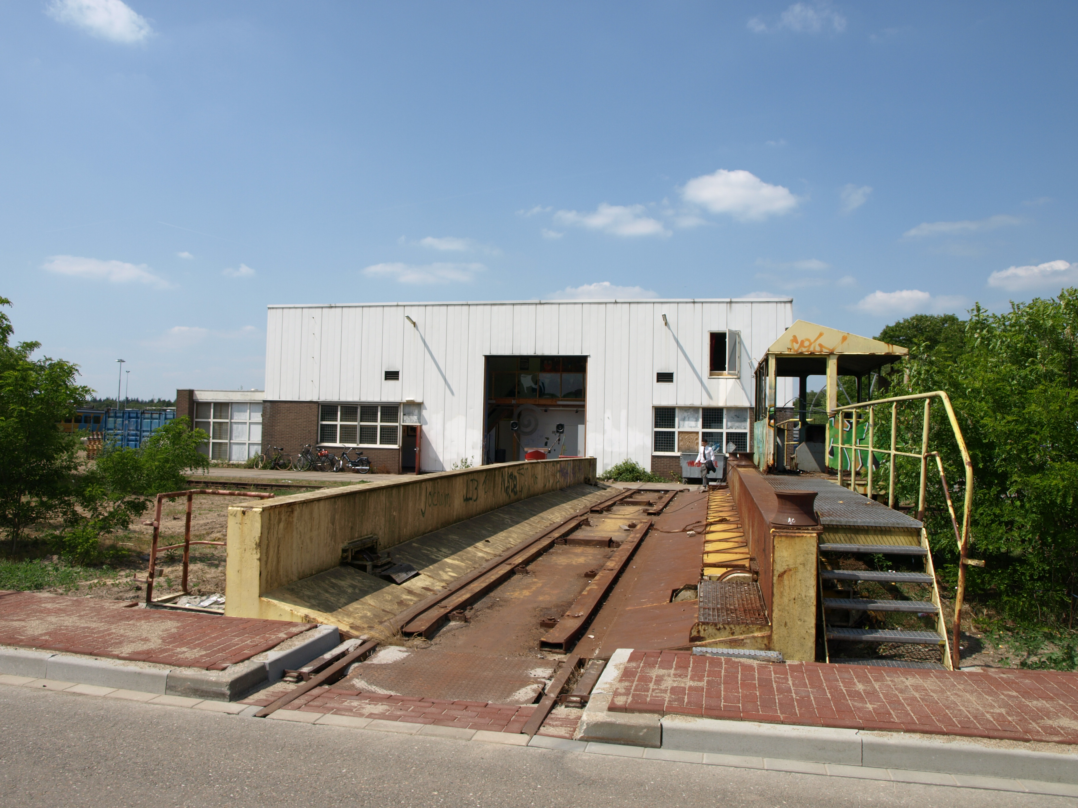 Amersfoort Railway Workshop (Nl)